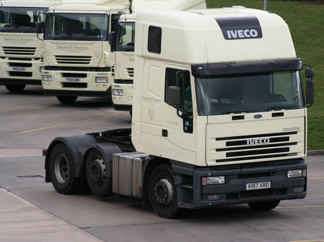 Iveco EuroStar